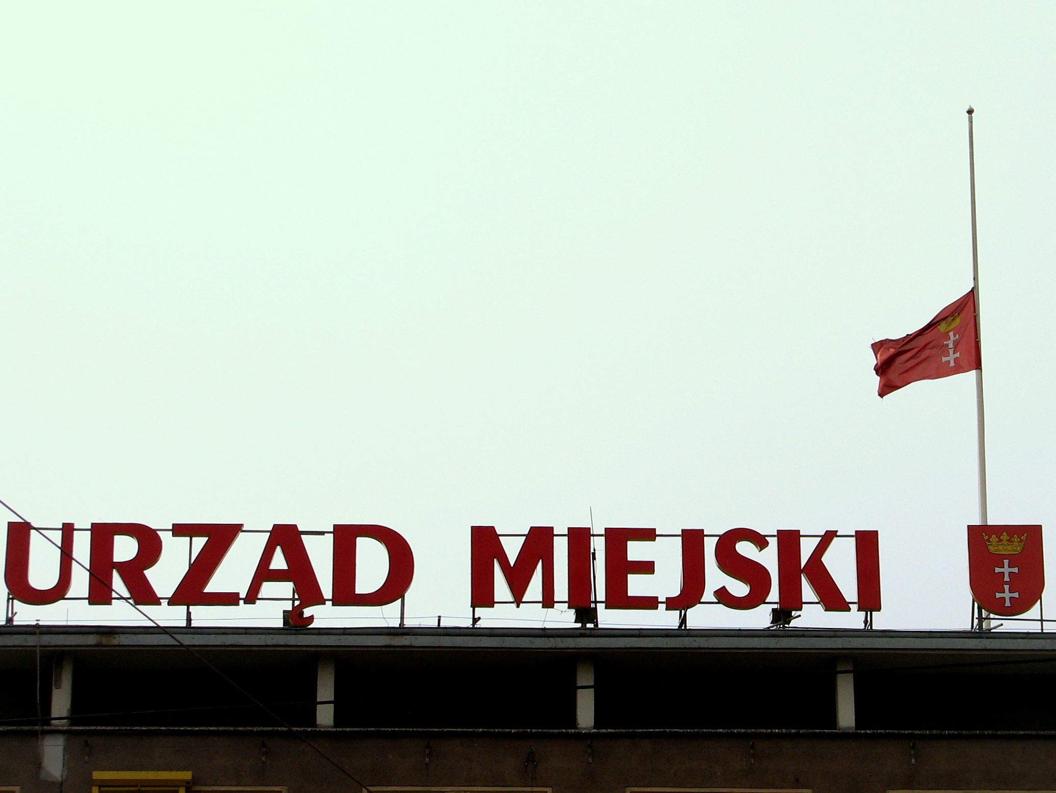 Present Gdańsk Town Hall after president's plane crash 2010. Political opinion of uploader is secret.